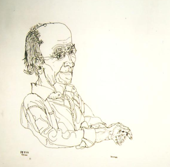 Portrait of the Architect Ernst Hiesmayrlabel QS:Len,"Portrait of the Architect Ernst Hiesmayr" label QS:Lde,"Portrait des Architekten Ernst Hiesmayr"